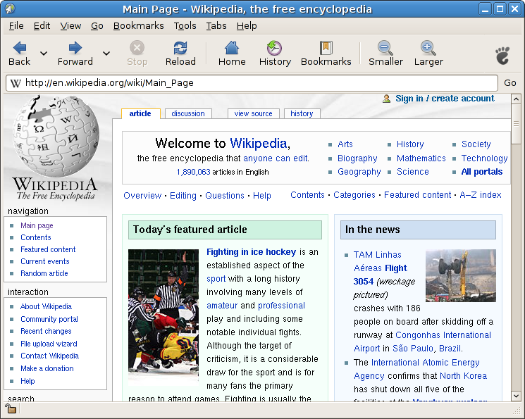 Epiphany 2.18.2 web browser in the GNOME desktop environment, running under Gentoo GNU+Linux in English.